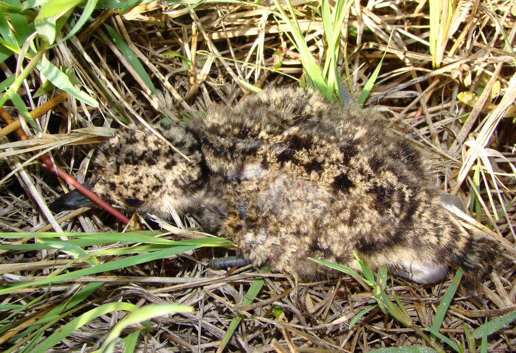 Southern Lapwing (known in Brazil as the Quero-quero). A chick on nest photographed in Rio Grande do Sul, Brazil.